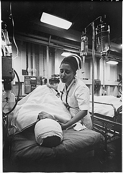 Navy Nurses. Lieutenant Commander Dorothy Ryan checks the medical chart of Marine Corporal Roy Hadaway of Calera, Alabama aboard the hospital ship USS repose off South Vietnam. Miss Ryan, from Bronx, New York is one of 29 nurses aboard the hospital ship selected from 500 volunteers of the Navy Nurse Corps. The patient is an American soldier in Vietnam War